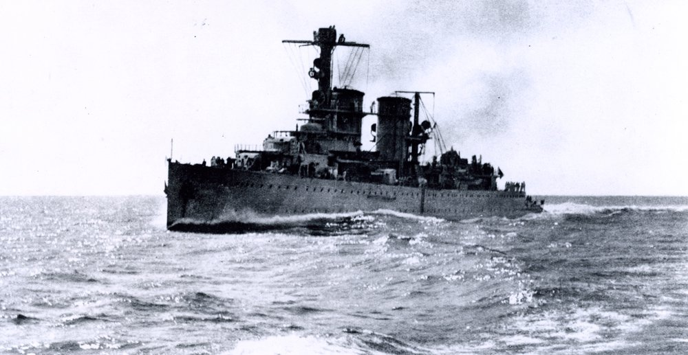 NHHC Photograph Collection, NH 80903. Java steams at high speed, c. 1939.